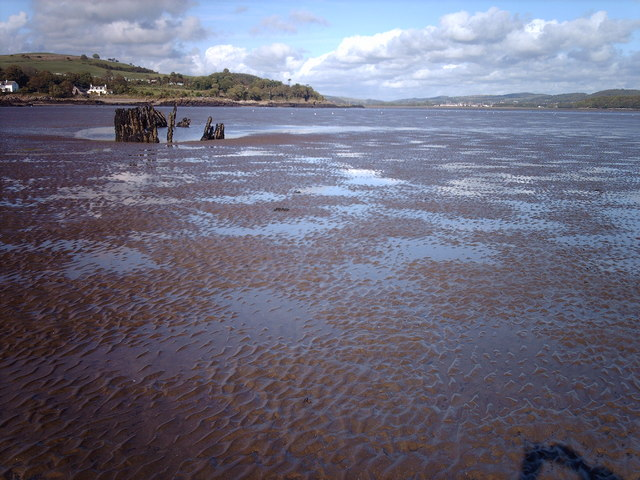 Wreck in Nun Mill Bay. View up west side of Kirkcudbright Bay towards the town.